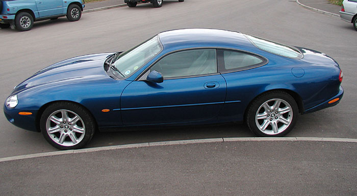 The Jaguar XK8 was launched in 1996. The 4.0 litre V8 engine produces 290 horsepower at 6100 rpm. Taken at the Somerset Light Railway, near Taunton, England.